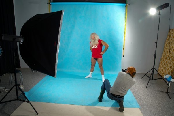 Екатерина Юрьевна Паньженская фотографирует МС Вспышкина